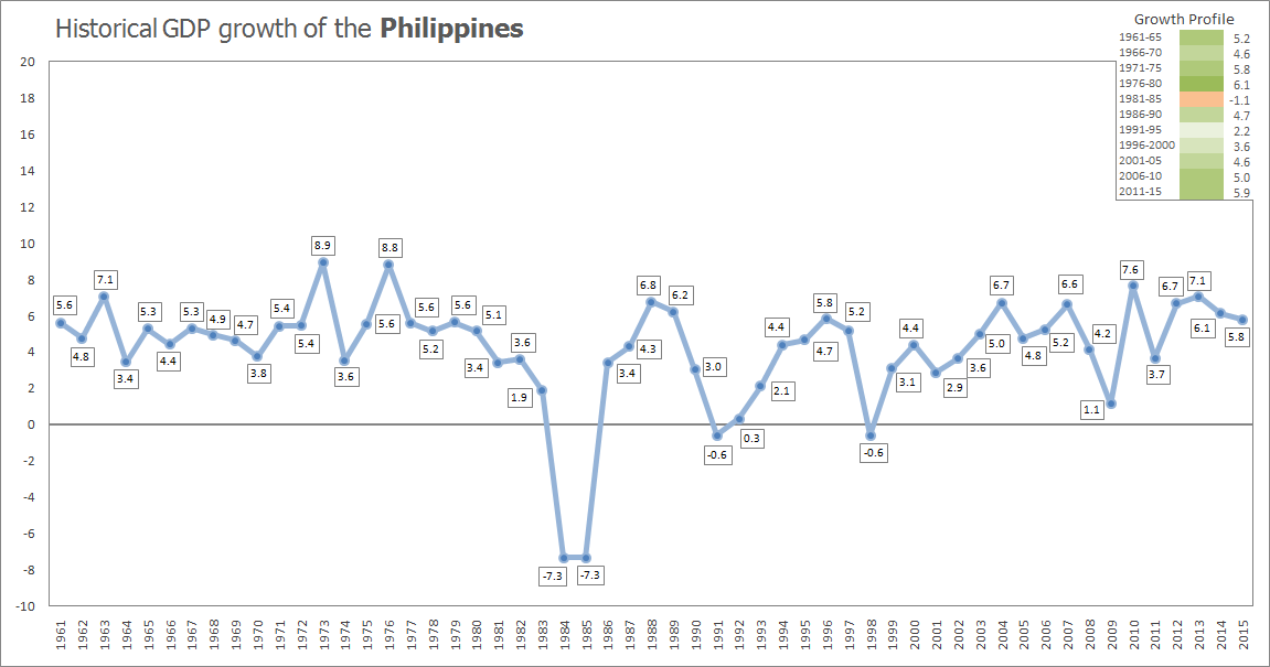 The chart shows the economic growth of the Philippines from 1961-2015. Also shown are the five-year averages in the same time frame.